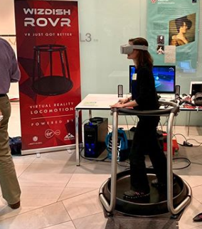 The Wizdish ROVR2 in demonstration